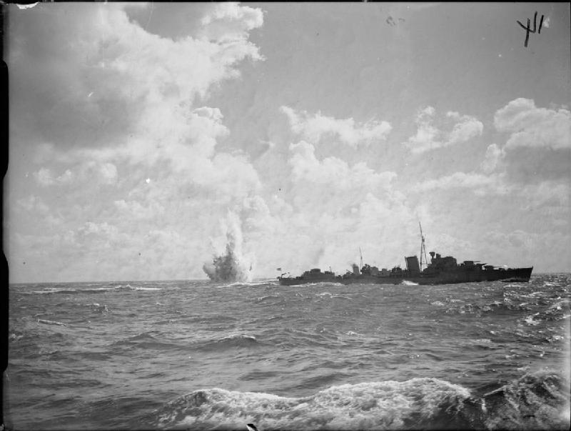 The Royal Navy during the Second World War Depth charges being dropped from HMS JAGUAR.